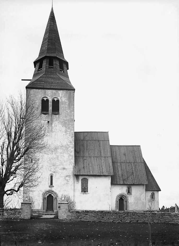 Anga Church from the 13th century, on the island of Gotland